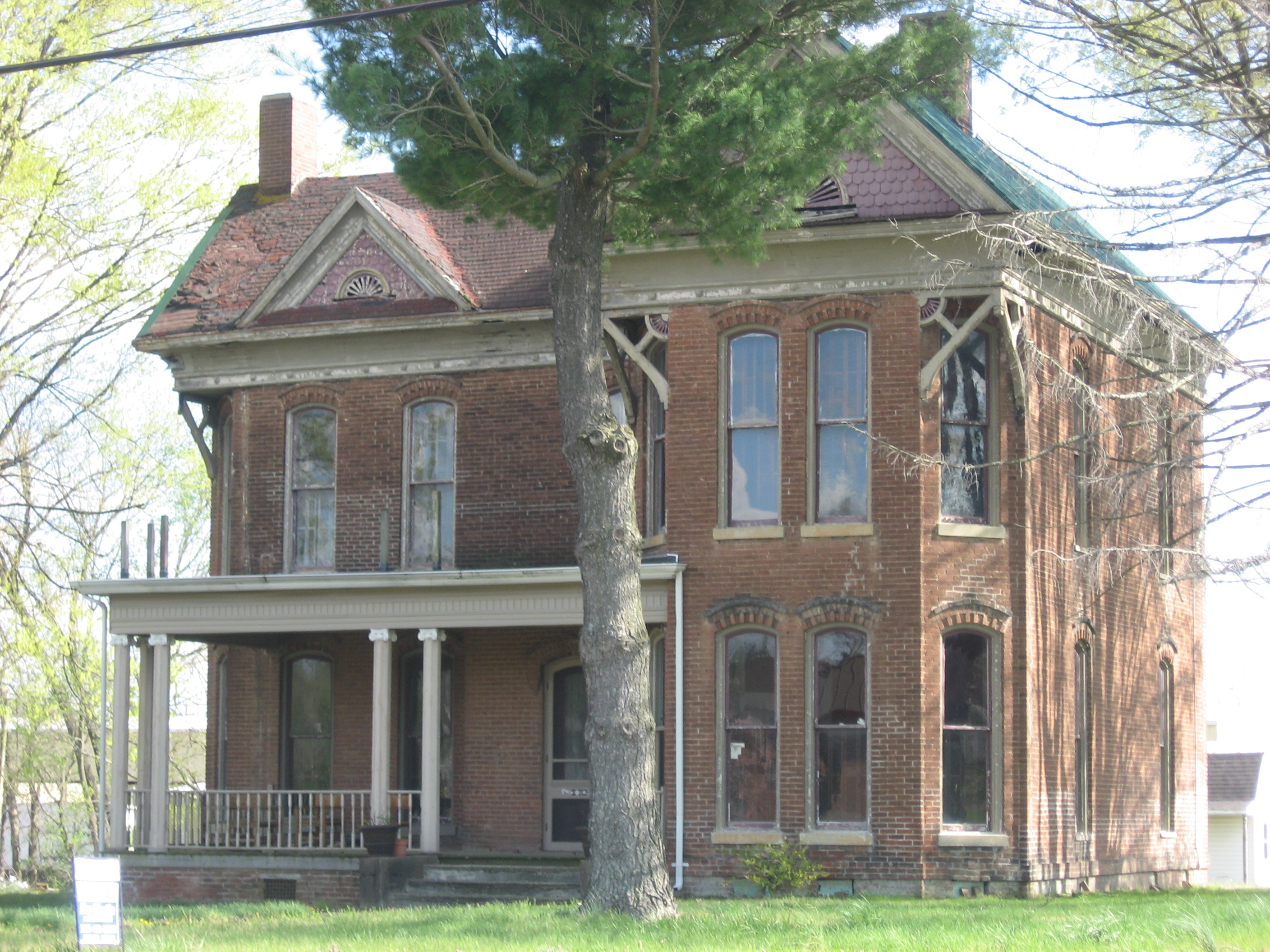 Front and western side of the W.W. Morris House, located at 305 W. State Line Road (Kentucky Route 116) in South Fulton, Tennessee, United States. Built in 1885, it is listed on the National Register of Historic Places.